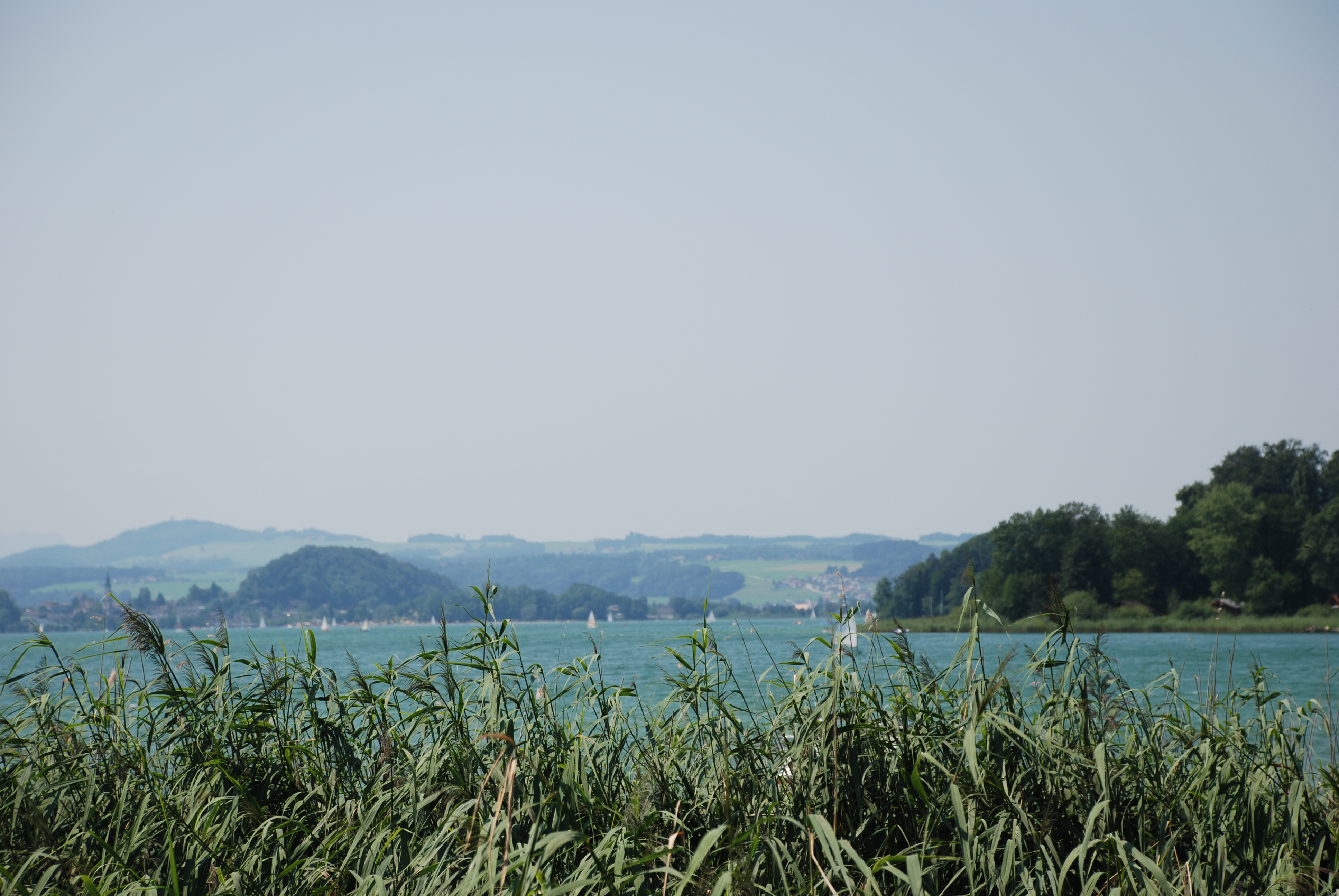 Wallersee/Austria